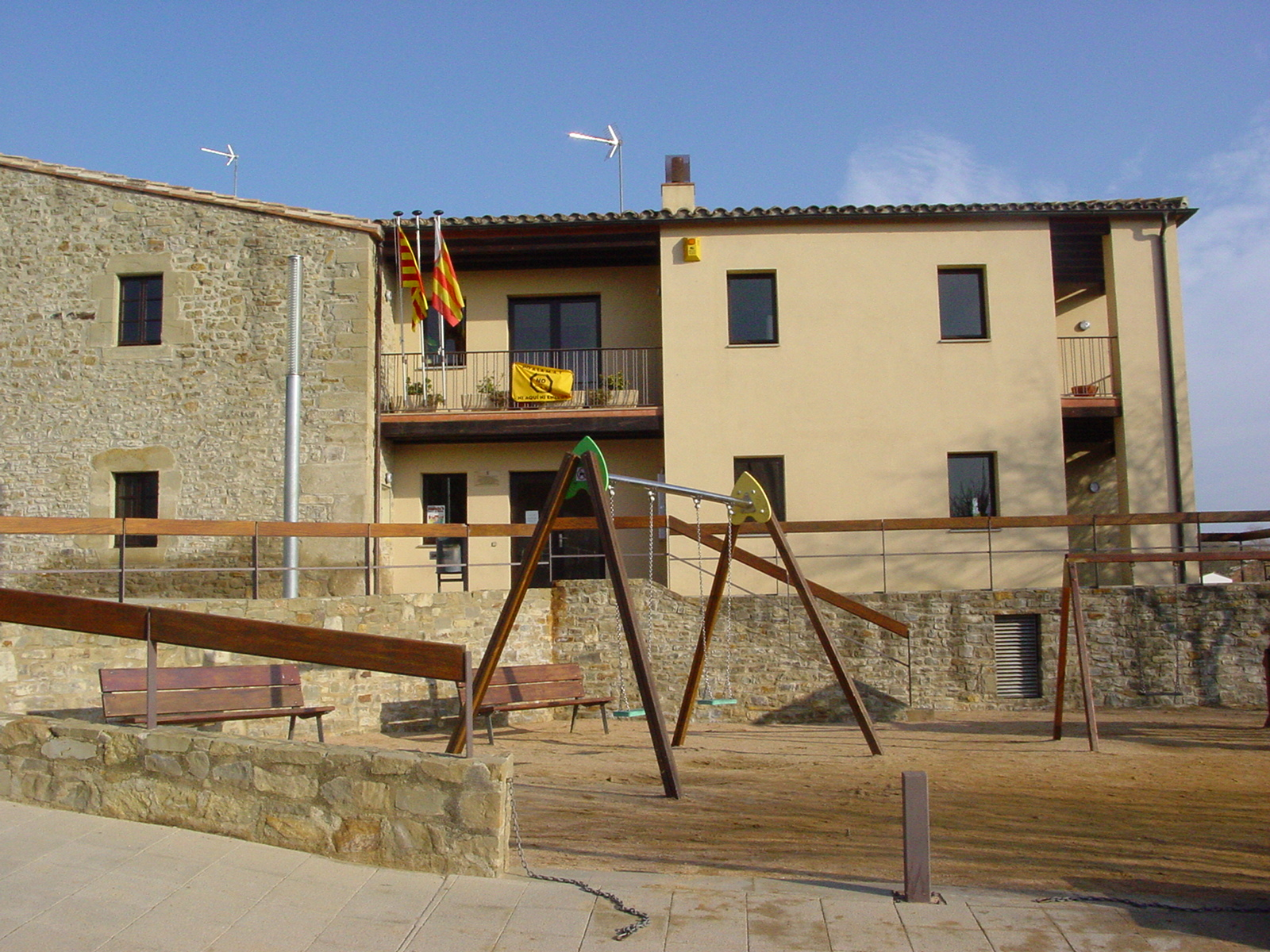 Camallera's Townhouse.